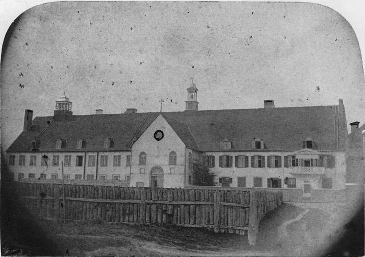 Photograph, Couvent des Ursulines, Trois Rivières, QC, about 1865, Anonymous, Silver salts, paint (retouching) on paper mounted on card - Albumen process - 7 x 11 cm